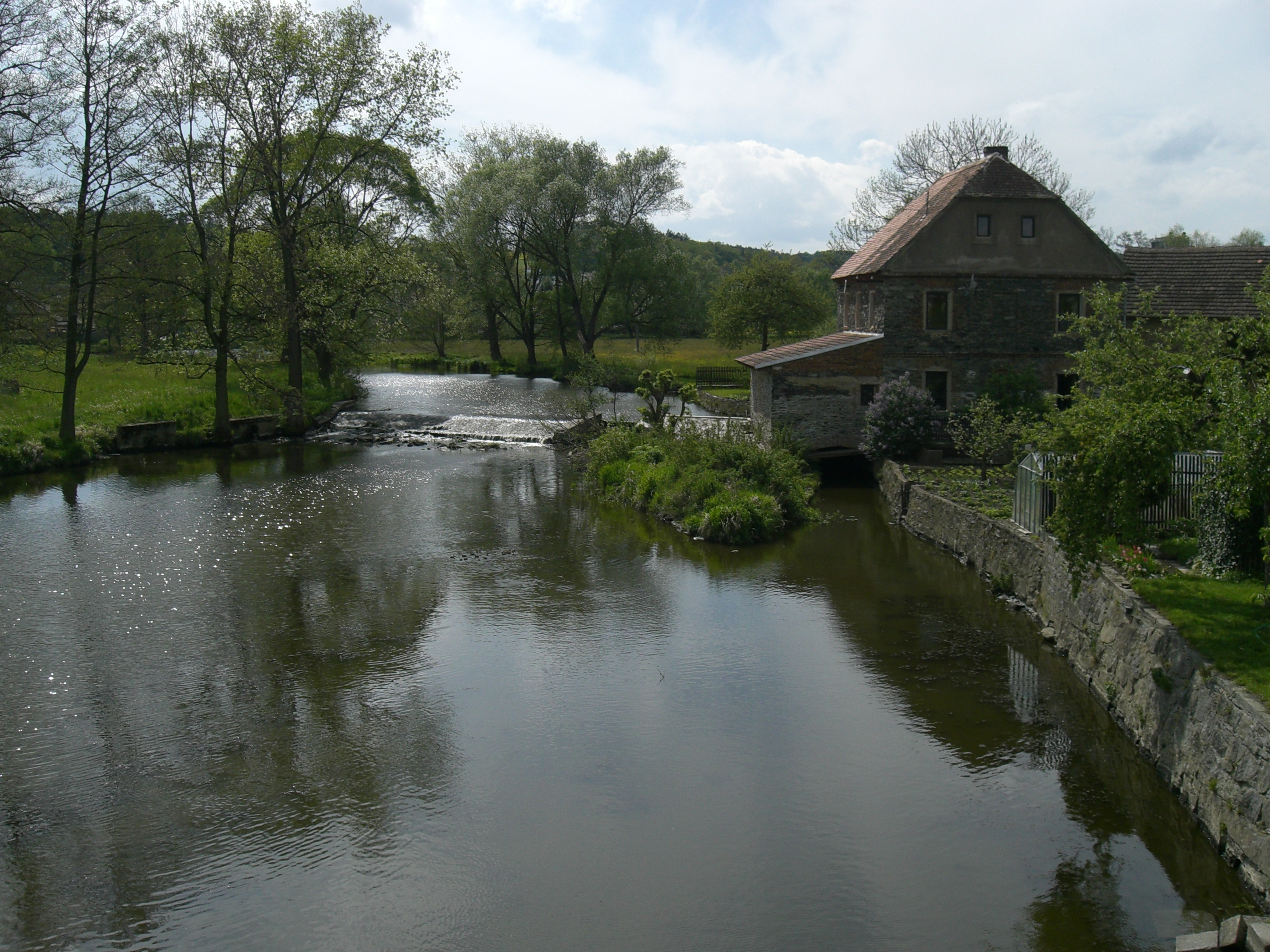 Skalice River in Mirovice in Písek district, Czech Republic.